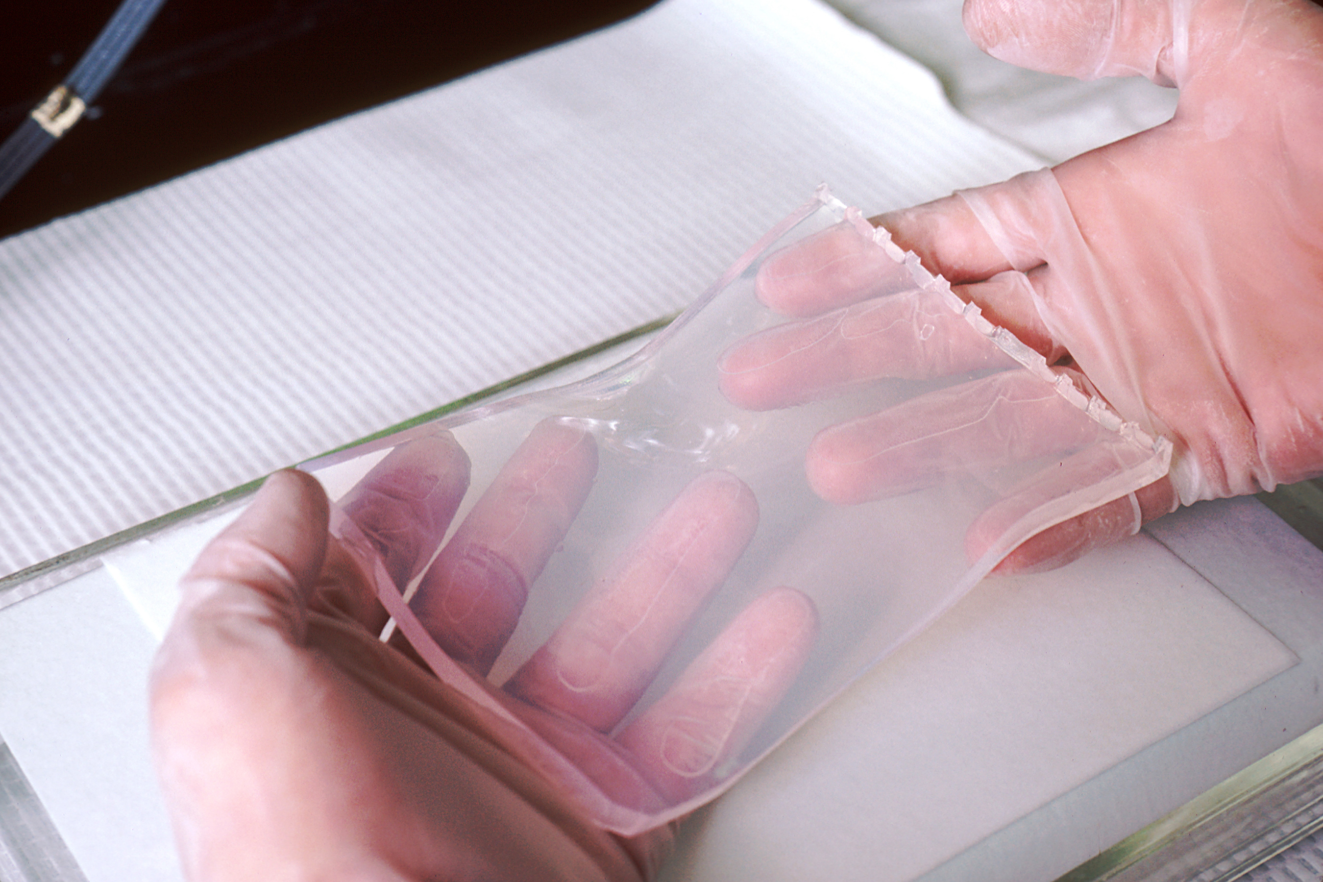 Title Recombinant DNA: Southern Blot Description A gel envelope being placed on a test pad, in a laboratory setting. Visible also are the rubber-gloved hands of scientists, a glass sheet and a white paper covering. They are preparing for the southern blot technique, now used in recombinant DNA technology. These new technologies have revolutionized the way scientists can look at the detail of cellular molecules. Topics/Categories Science and Technology -- Genetics Type Color, Photo Source National Cancer Institute